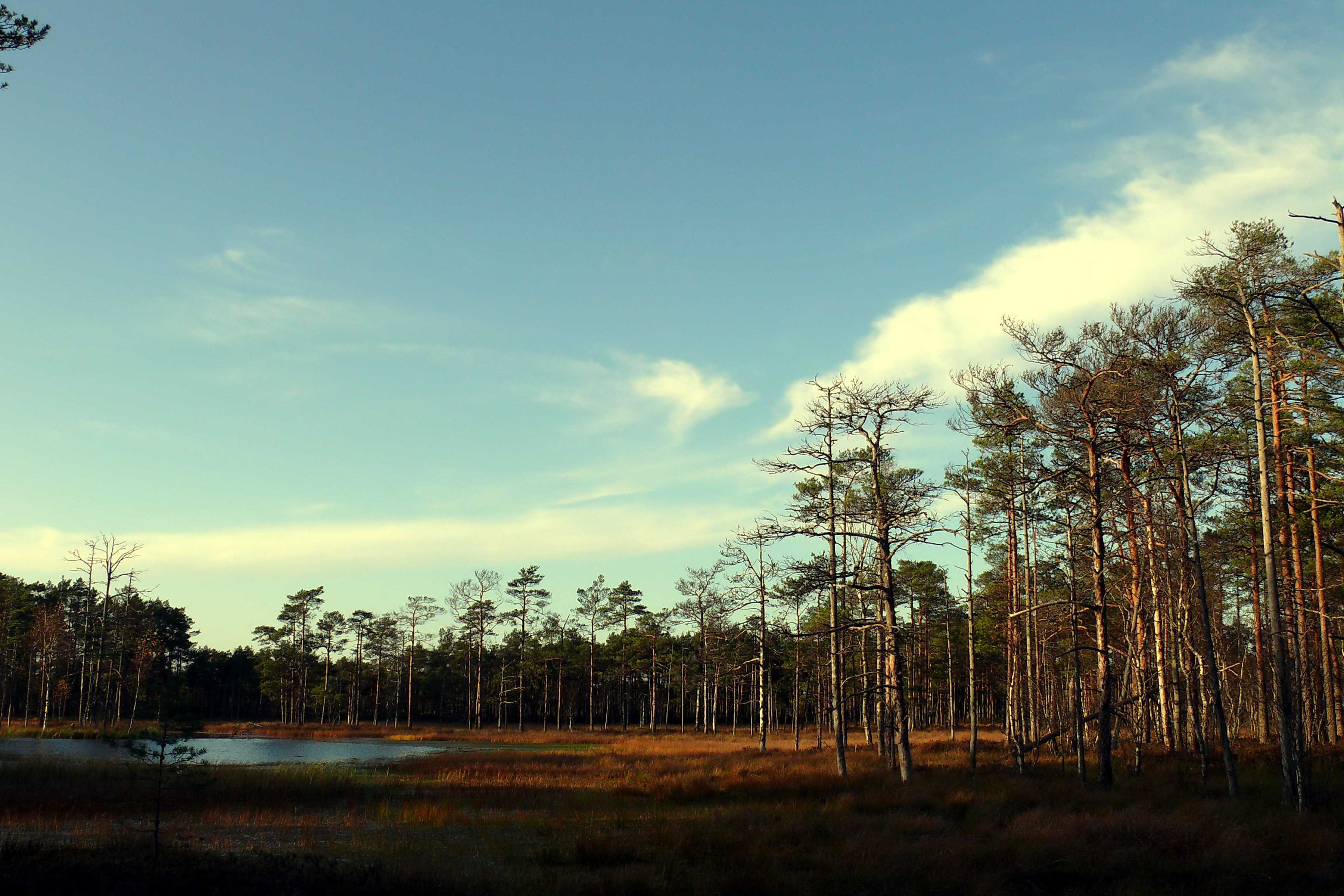 Väätsa bog in Estonia.